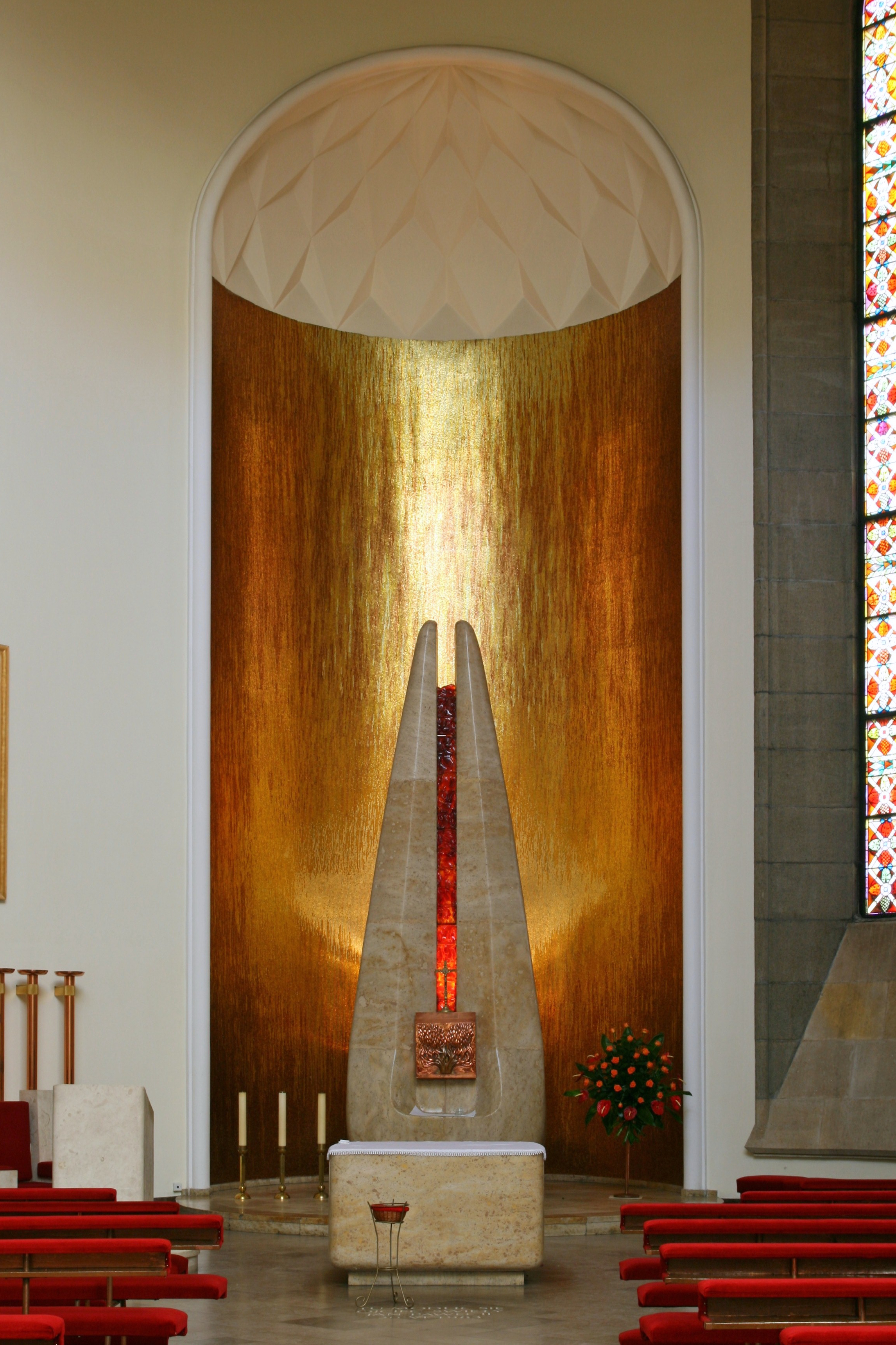 Tabernacle in Cathedral in Katowice (Poland).